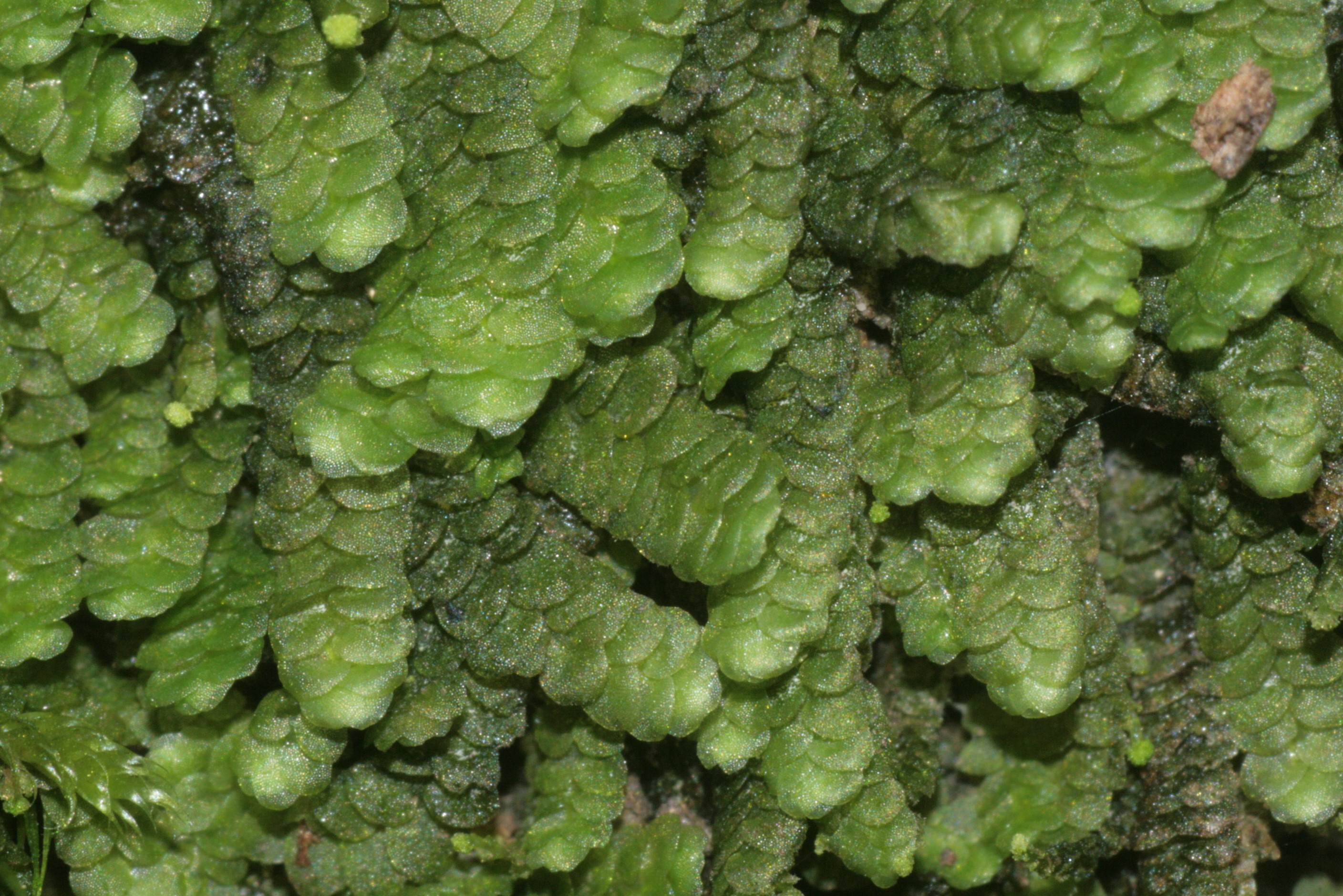 Calypogeia muelleriana